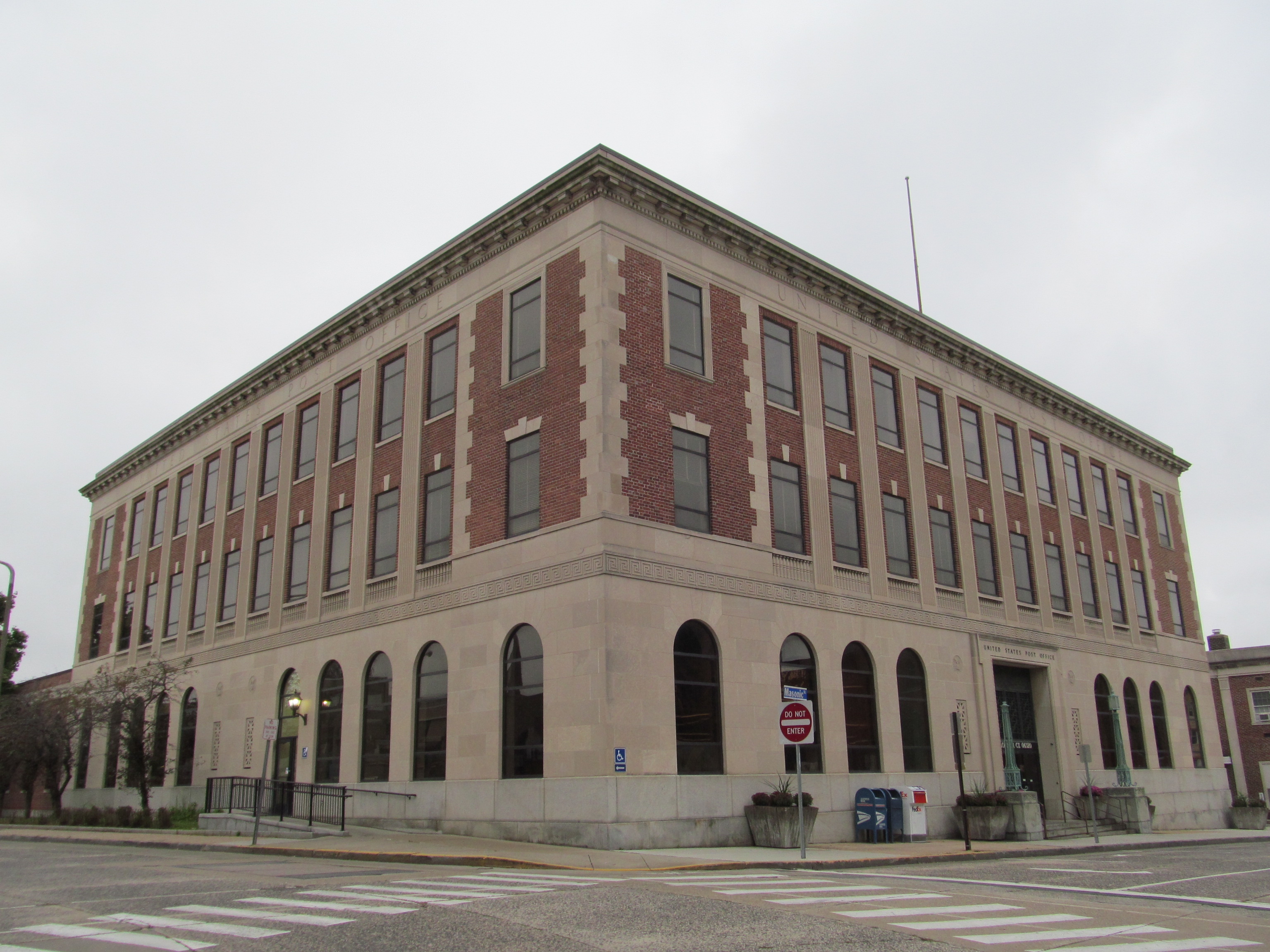 US Post Office-New London Main, New London Connecticut